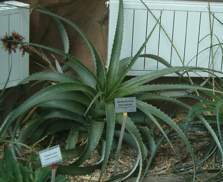 At Botanical Gardens Berlin-Dahlem Species Deuterocohnia brevispicata